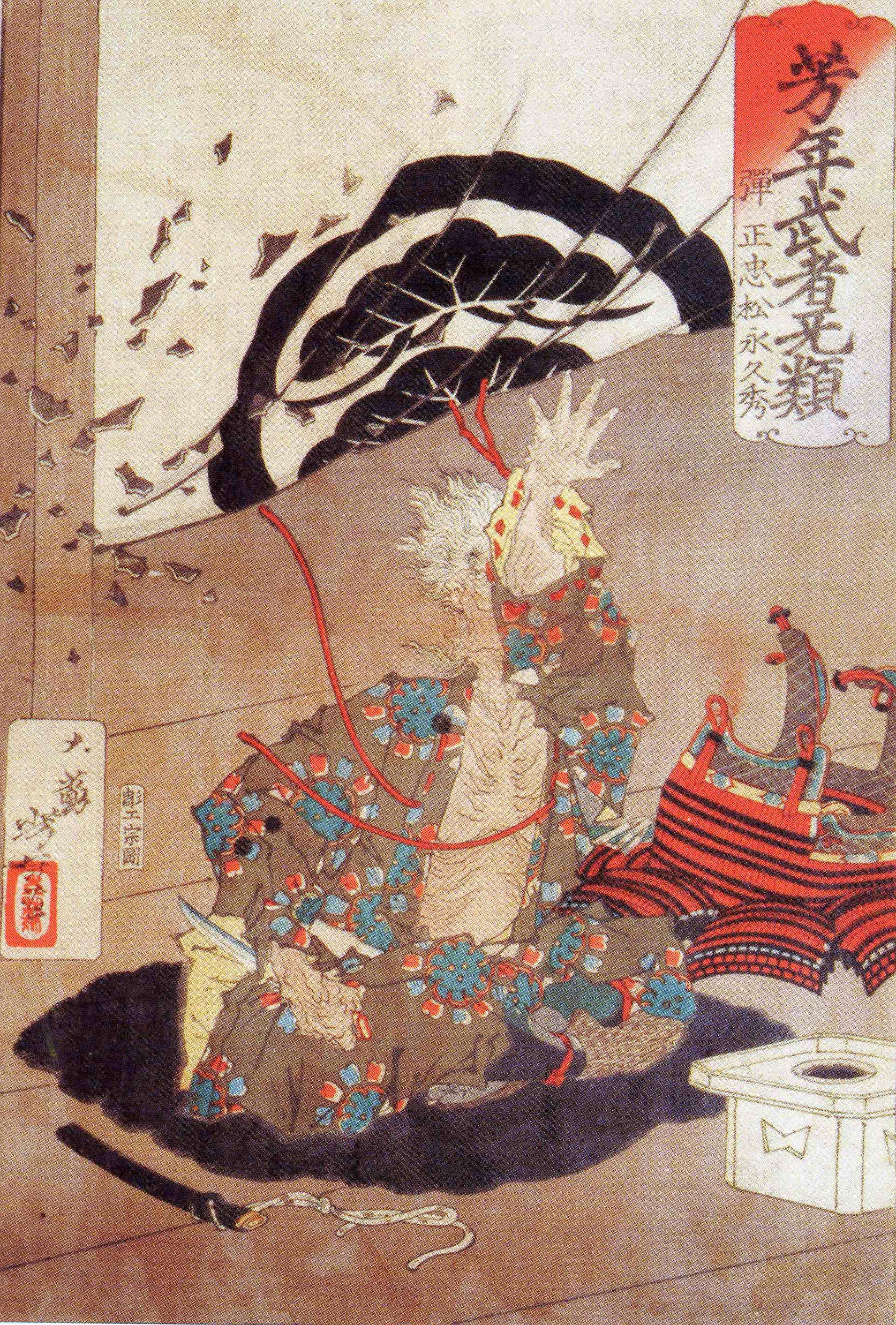 松永久秀画像。1577年の「信貴山城の戦い」で織田軍に包囲され、いよいよ自害に追い込まれた瞬間を描いたもの。織田信長は命を助けるかわりに久秀が所有していた茶釜の平蜘蛛を手渡すよう命じたが久秀は拒否して自ら割って自害した。 At the battle of Mt. Shigi-san 1577, Matsunaga Hisahide was surrounded by Oda Nobunaga's army. Nobunaga told Hisahide to give up his famous tea kettle called 'Kotenmyo Hiragumo' so that he would spare his life, but Hisahide refused and broke the Hiragumo into pieces in his castle before killing himself. Hisahide and Nobunaga were tea masters and Nobunaga had wanted to possess the kettle Hiragumo(flat-shaped spider) long time. Because of the unique shape similar to a crawling spider, the tea kettle, Chagama, became famous among tea masters.